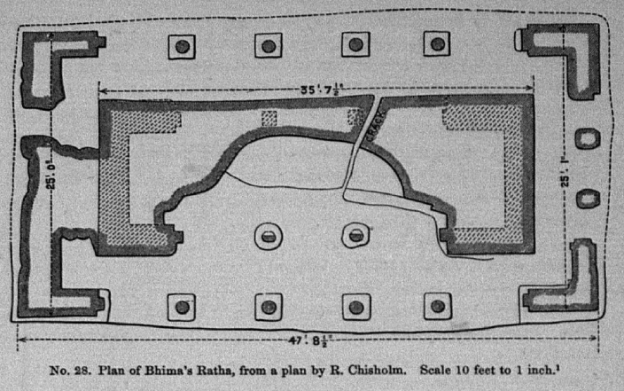 Plan of Bhima's Ratha, Mahaballipuram